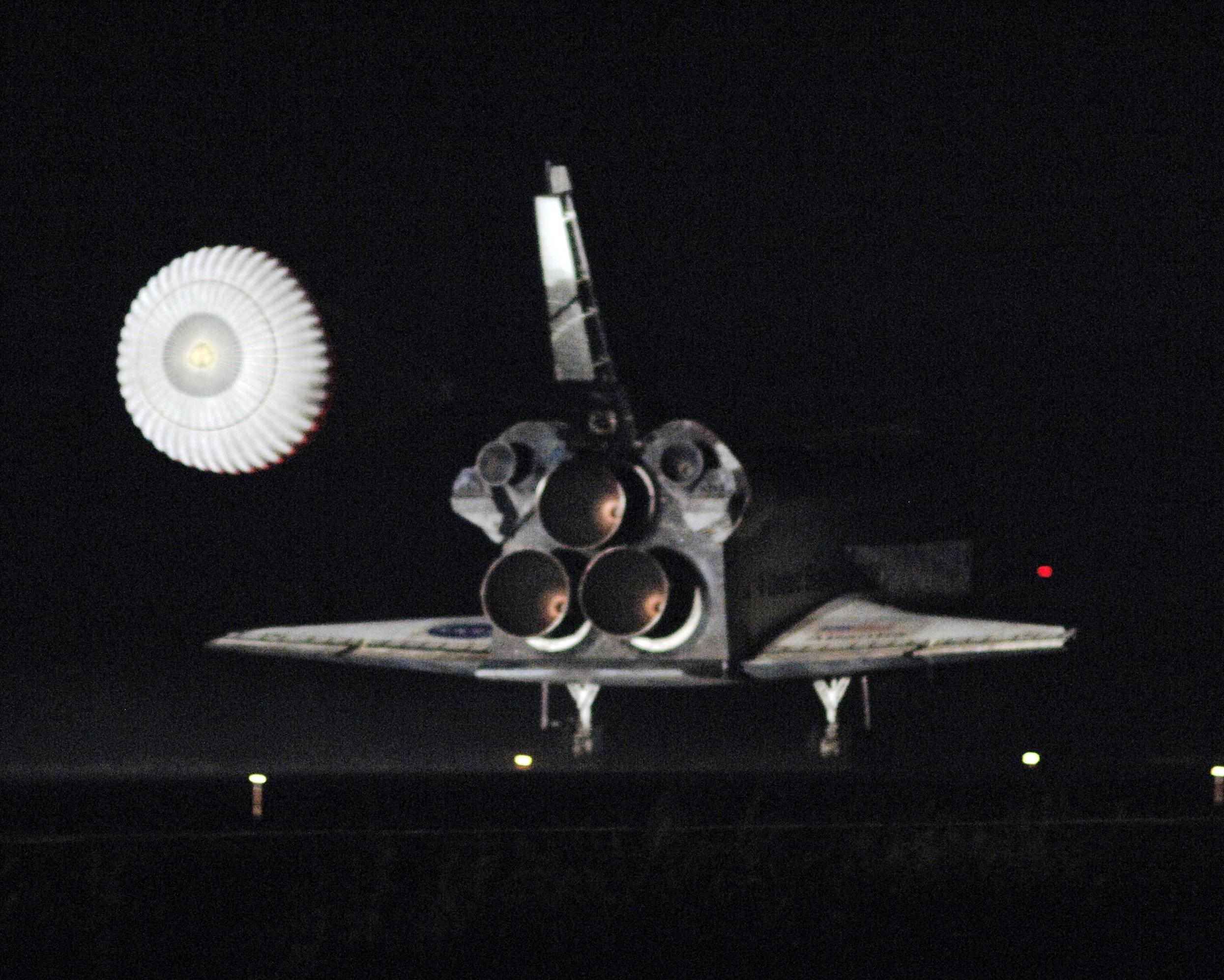 PHOTO NO: KSC-06PD-2192 KENNEDY SPACE CENTER, FLA. – The drag chute glows in the lights illuminating Atlantis as it touches down on Runway 33 at NASA's Kennedy Space Center, concluding mission STS-115. Aboard are Commander Brent Jett, Pilot Christopher Ferguson, and Mission Specialists Joseph Tanner, David Burbank, Heidemarie Stefanyshyn-Piper and Steven MacLean, who represents the Canadian Space Agency. During the mission, Tanner, McLean, Burbank and Piper completed three spacewalks to attach the P3/P4 integrated truss structure to the International Space Station. Main gear touchdown was at 6:21:30 a.m. EDT. Nose gear touchdown was at 6:21:36 a.m. and wheel stop was at 6:22:16 a.m. At touchdown -- nominally about 2,500 ft. beyond the runway threshold -- the orbiter is traveling at a speed ranging from 213 to 226 mph. Atlantis traveled 4.9 million miles, landing on orbit 187. Mission elapsed time was 11 days, 19 hours, six minutes. This is the 15th night landing at KSC and the 23rd night landing overall. Photo credit: NASA/Mike Kerley